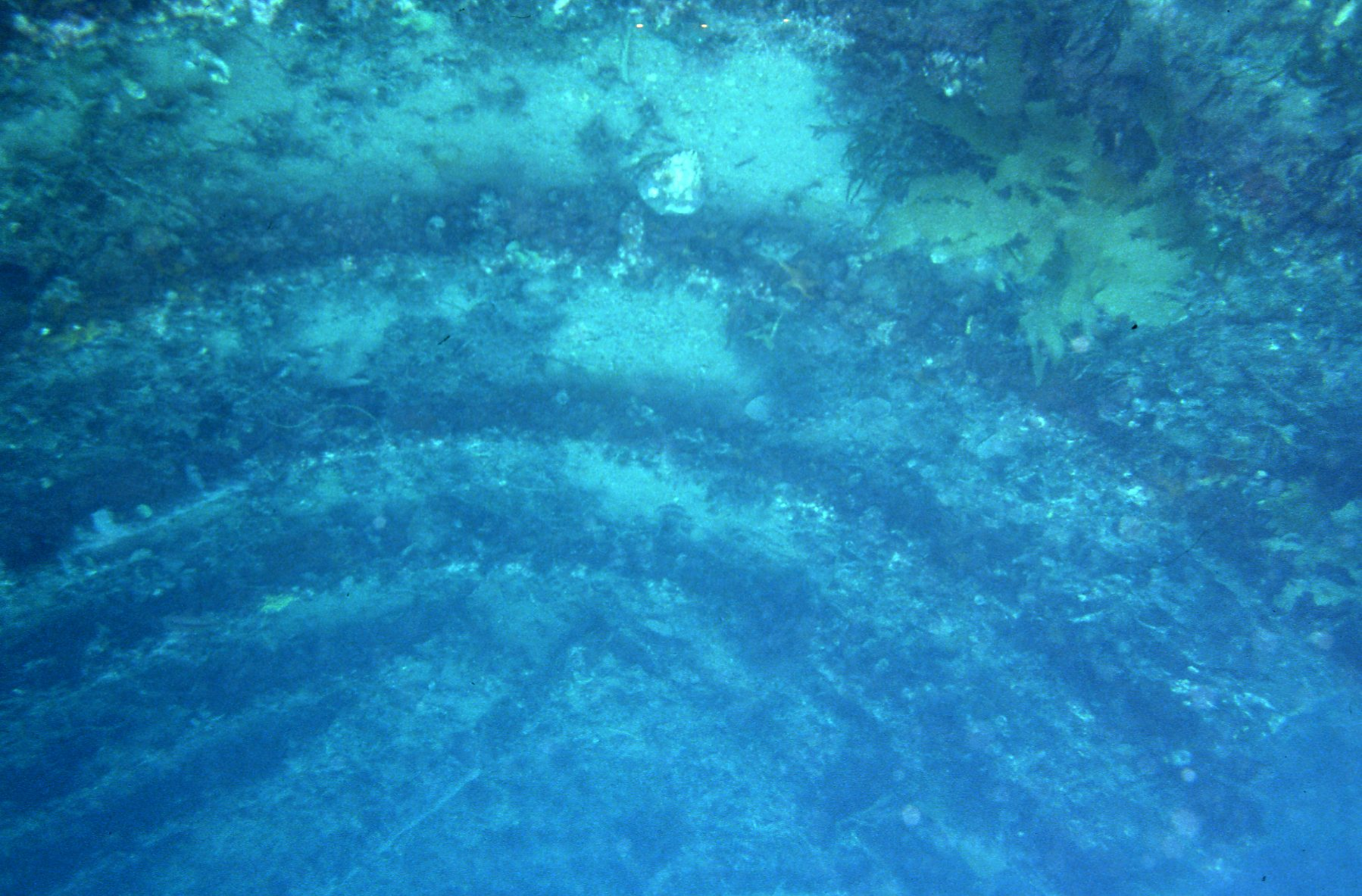 Clan Ranald shipwreck